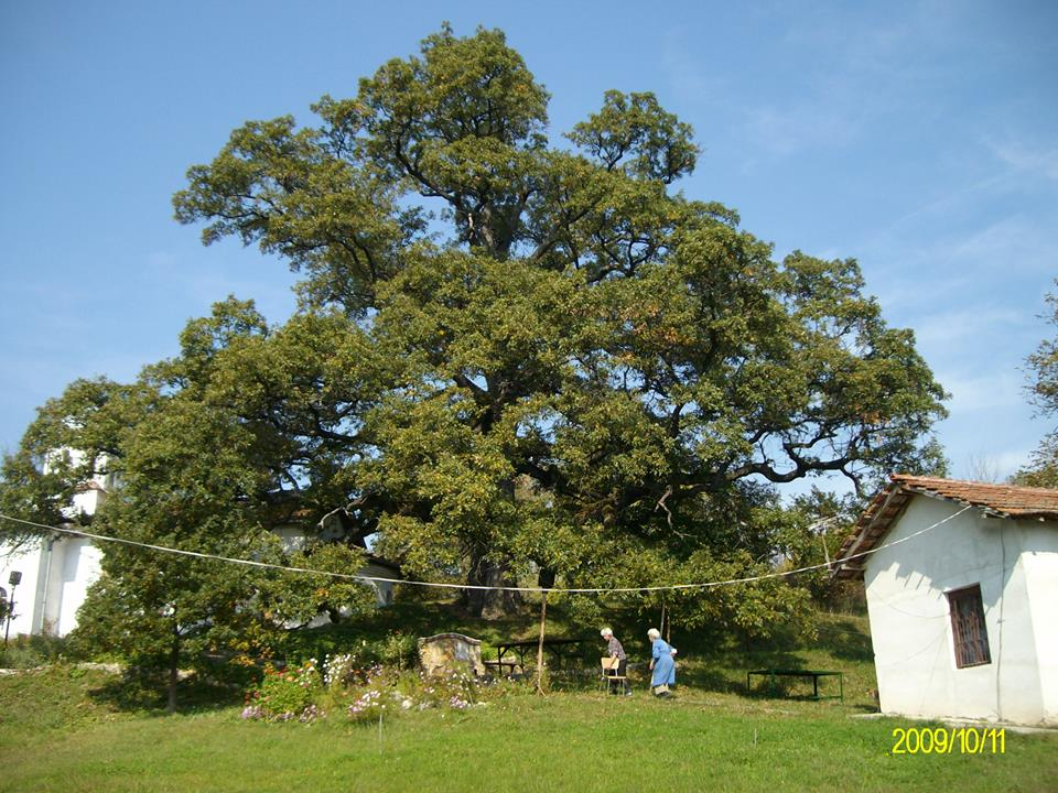 Skravena Monastery, Bulgaria